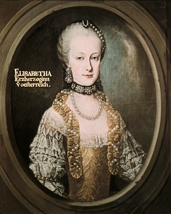 Portrait of Archduchess Maria Elisabeth of Austria (1743–1808)